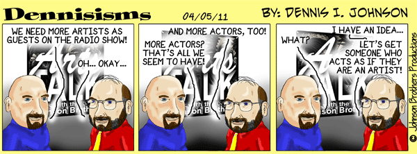 Dennisisms is a daily comic strip about ordinary and not so ordinary people.